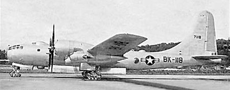 Boeing EB-50B